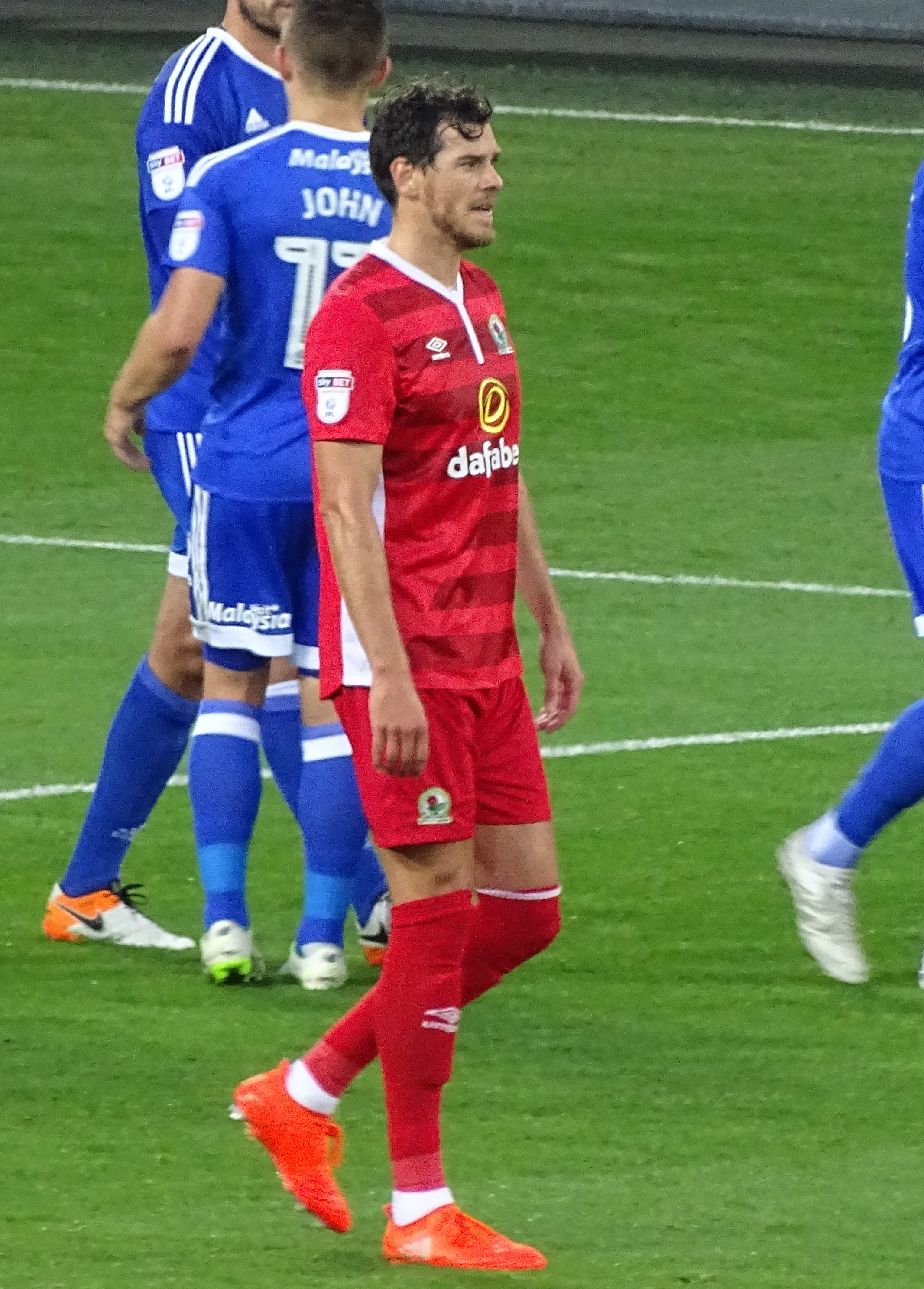 Footballer Gordon Greer playing for Blackburn Rovers.